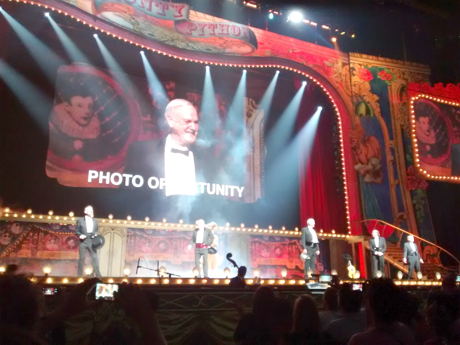 A photograph of the first Monty Python reunion show at the O2 Arena in London, United Kingdom.